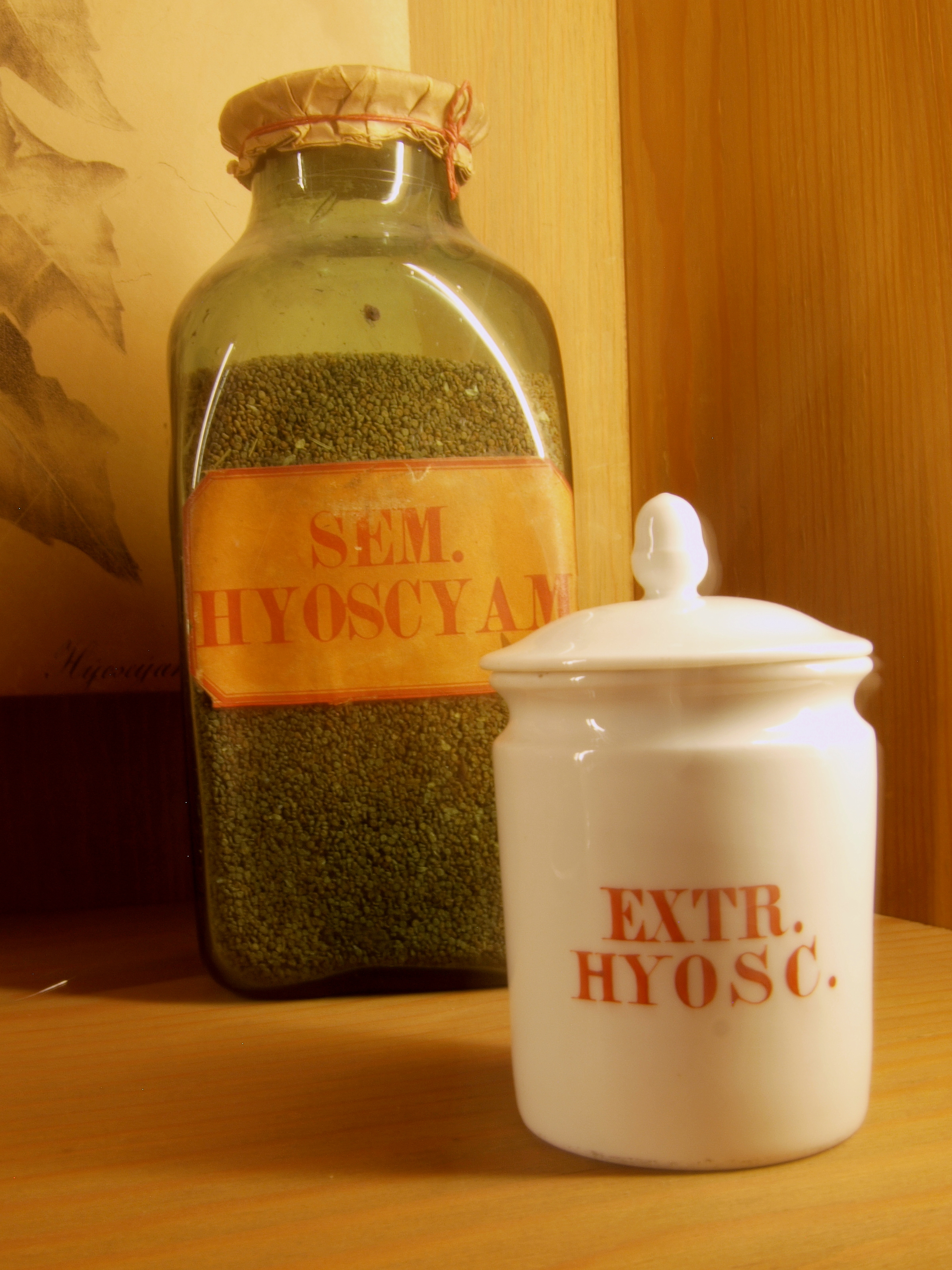 Two apothecary vessels for storage of Hyoscyamus niger preparations dating approx. 19th century at Deutsches Apothekenmuseum Heidelberg, Germany.